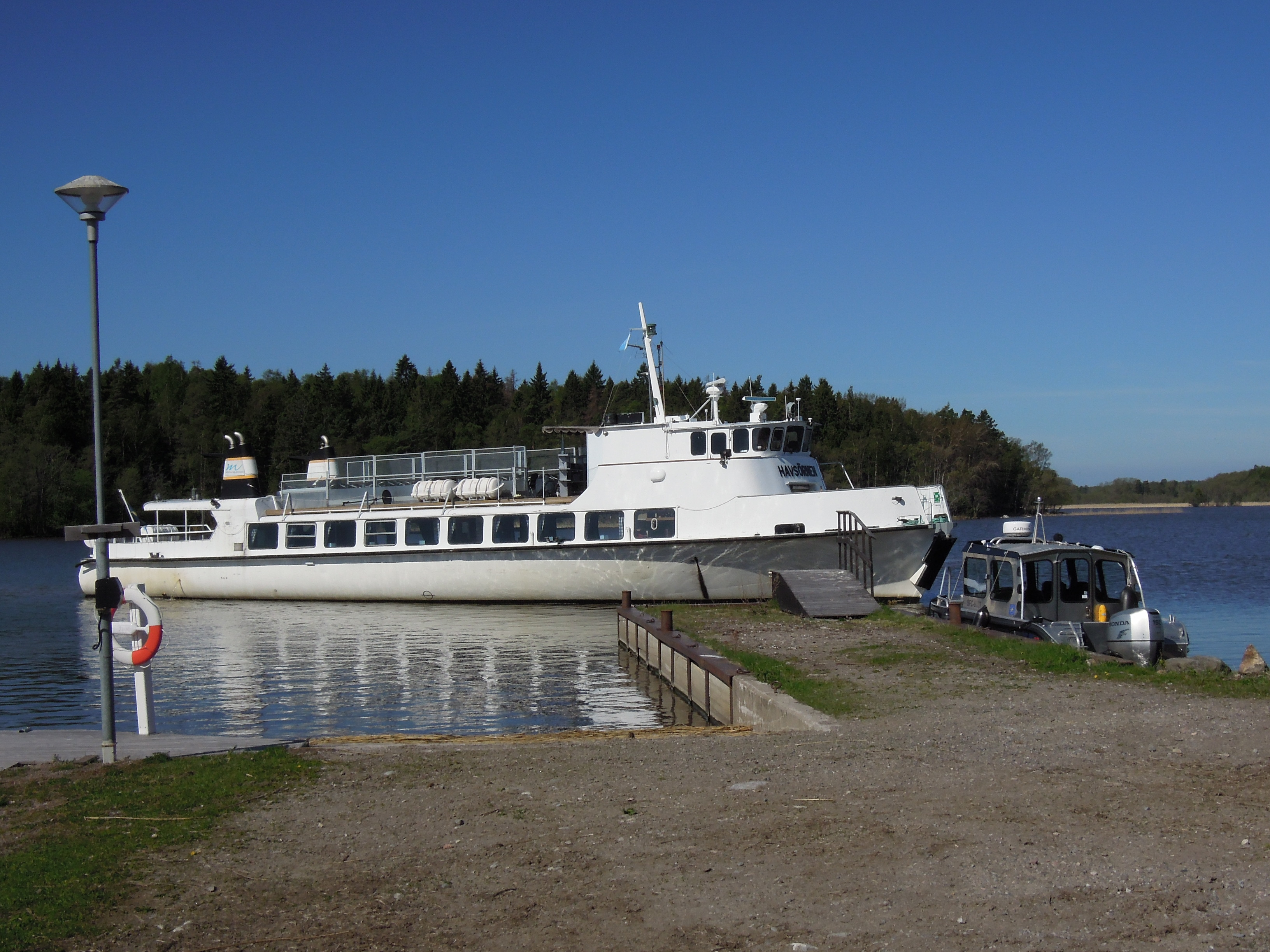 M/S Havsörnen in traffic at Västerås, Sweden. Built in 1965. Operates in lake Mälaren since 2008. Picture from the island Aggarön.